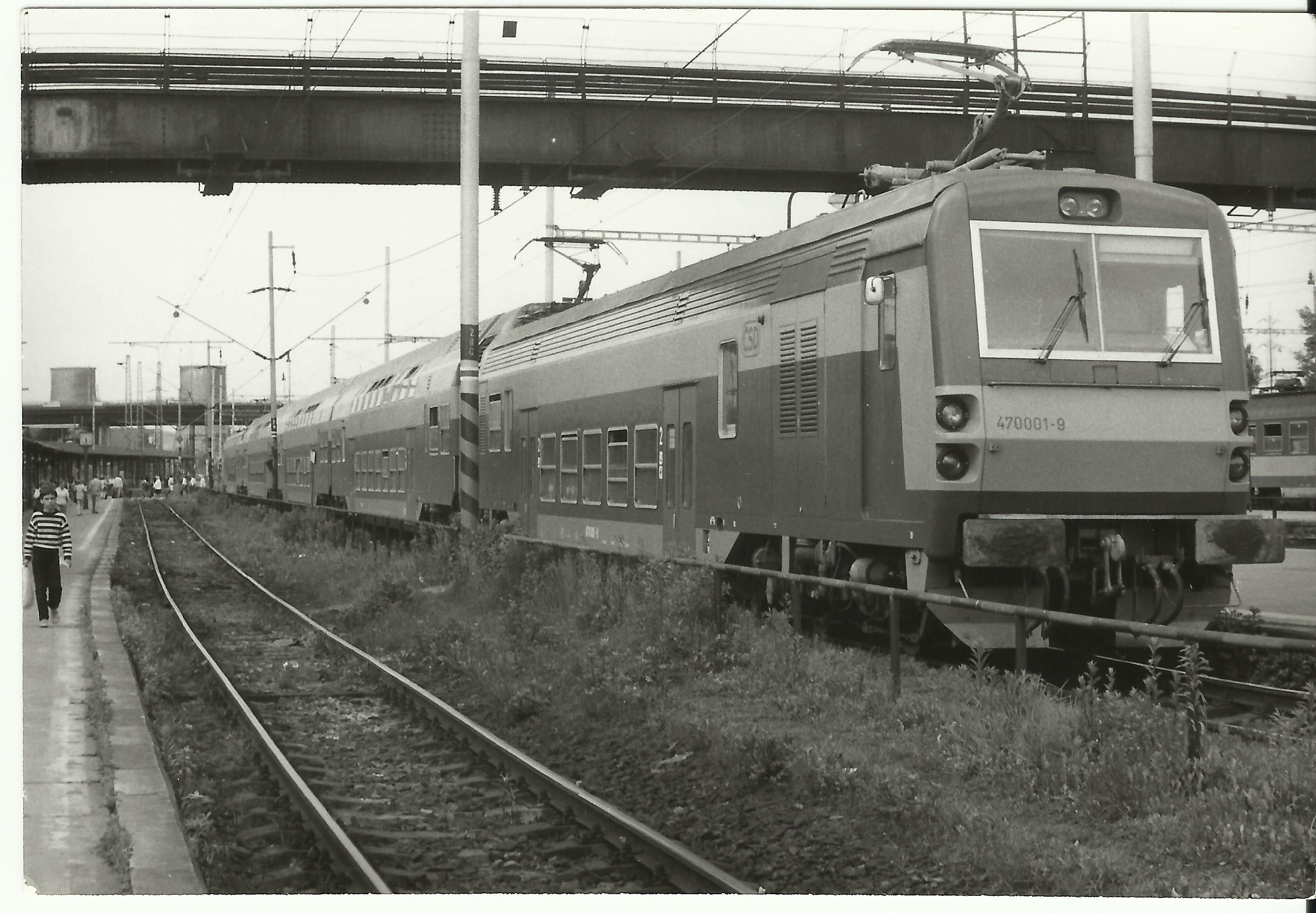 470 001-9, Ostrava-Svinov, 7. 1991 (Czechoslovakia).